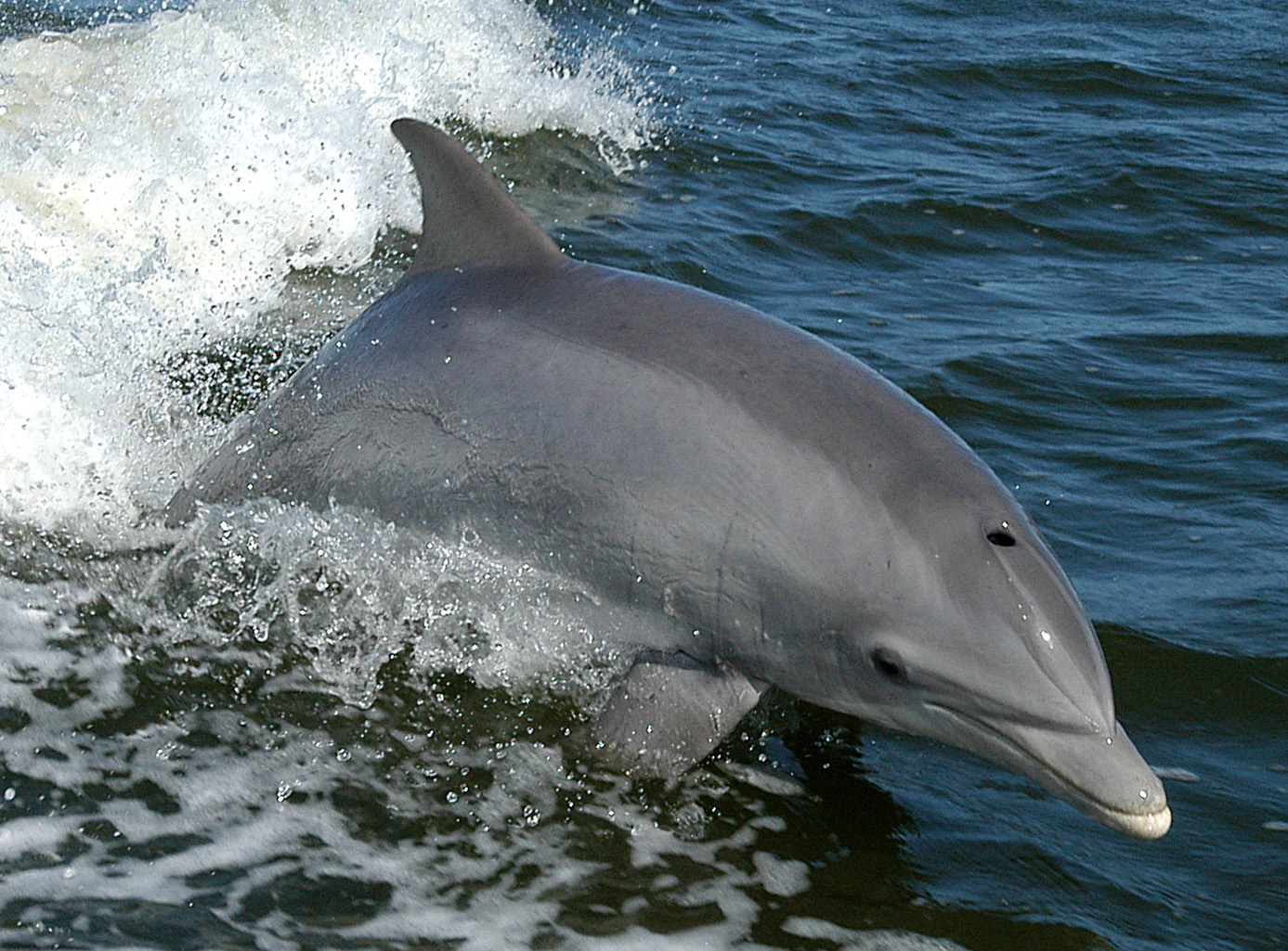 Bottlenose Dolphin - Tursiops truncatus A dolphin surfs the wake of a research boat on the Banana River - near the Kennedy Space Center.